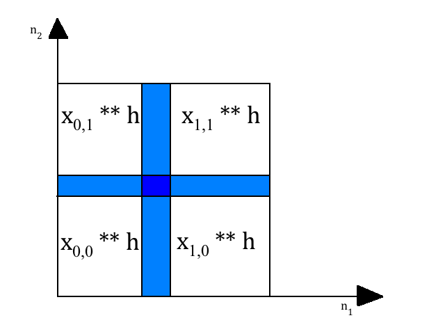 combined